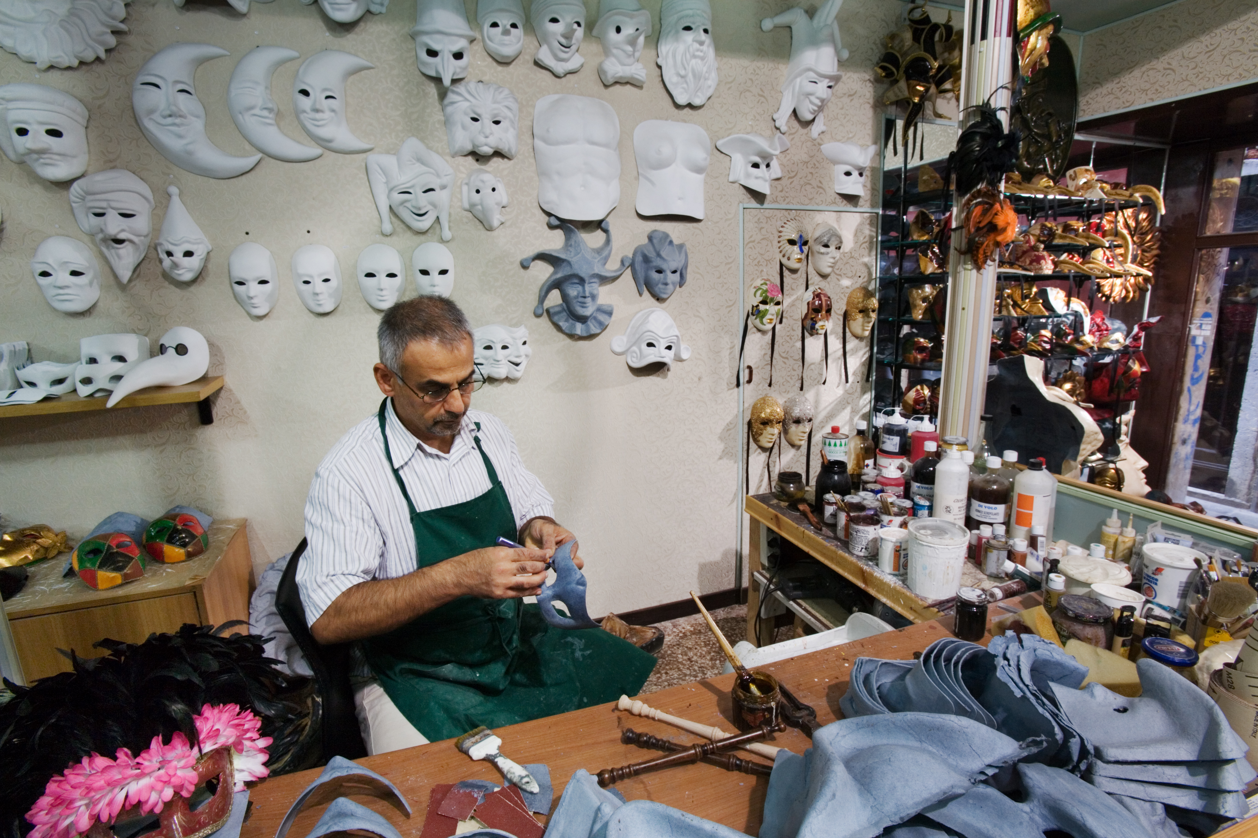 A mask maker workshop. Venice, Italy 2009